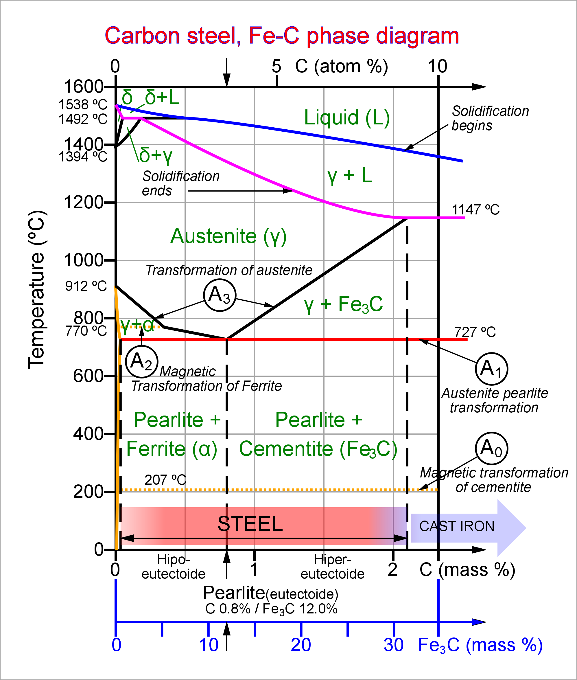 Fe-C phase diagram of carbon steels in English. If you want to modify the contents of this file or to translate them into another language, you better copy the “Steel_Fe-C_phase_diagram-eu.svg” file and modify it to, from the modified file, generate another PNG file.